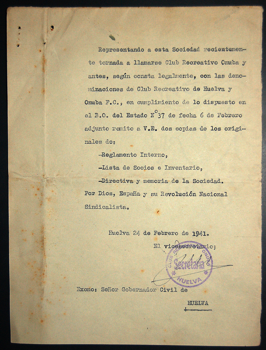 carta emitida por el entonces Club Recreativo Onuba al Gobierno Civil